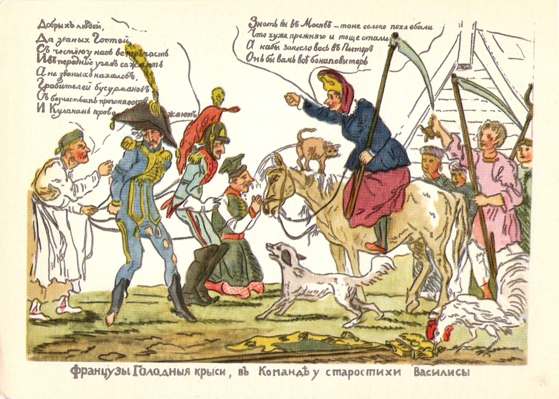 «Franches - Hunger rats in elder Vasilisa command». This is Engraving on wood in lubok style by russian painter Alexey Venetsianov. It is illustrate by russian Guerrilla and one of main partisan general - peasant elder Vasilisa Kozhina